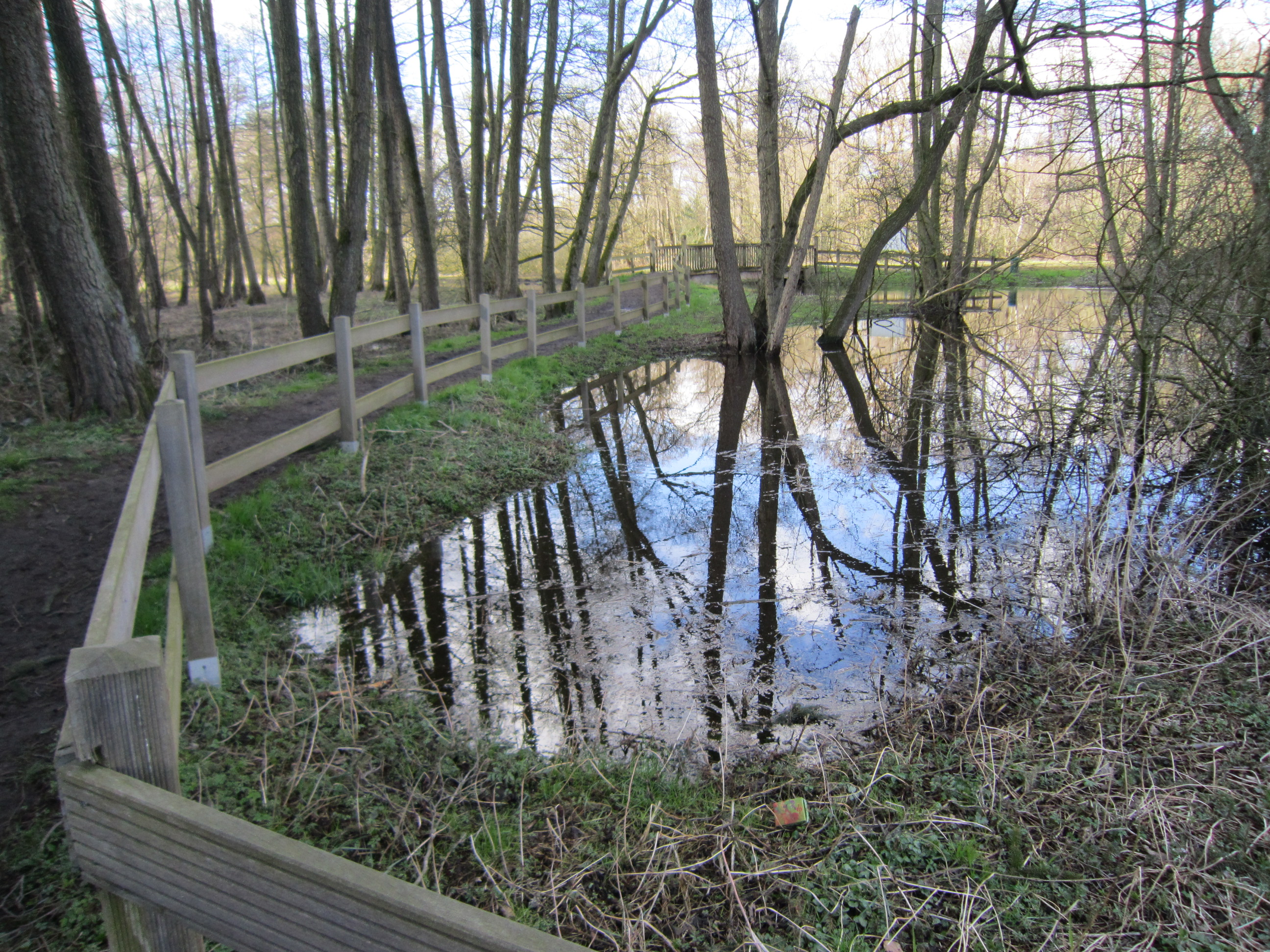 Vechtaer Moorbach during a highwater period